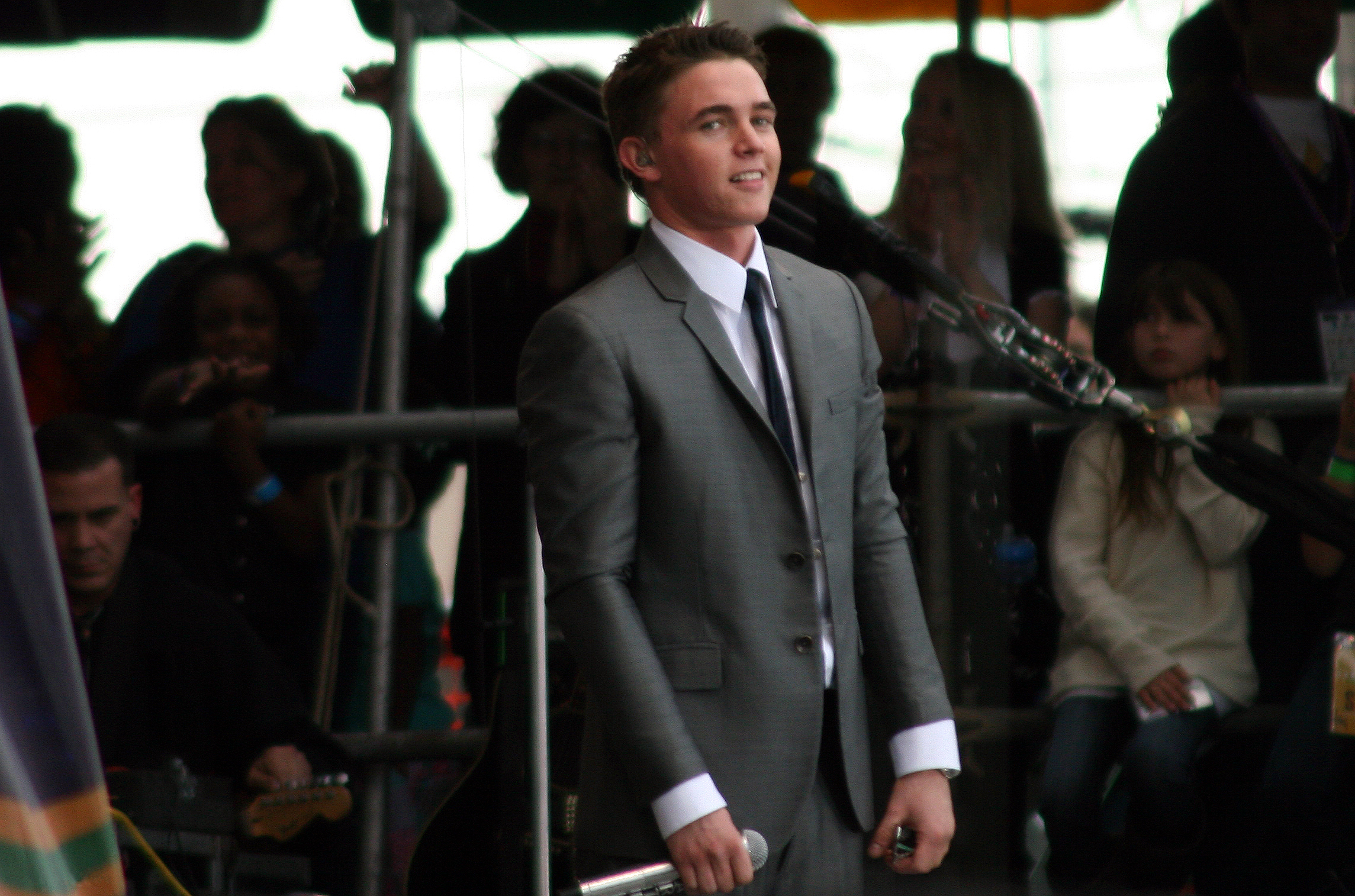 Photograph of pop star Jesse McCartney during his February 15, 2009 concert appearance in Metairie, Louisiana.